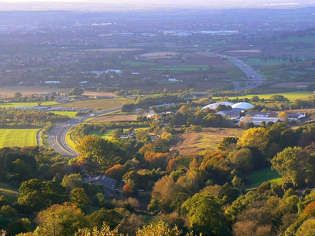 A417 east of Gloucester In this view to the north-west we look down the hill from the Barrow Wake viewpoint to the A417 dual carriageway as it passes commercial and industrial premises east of the A46.